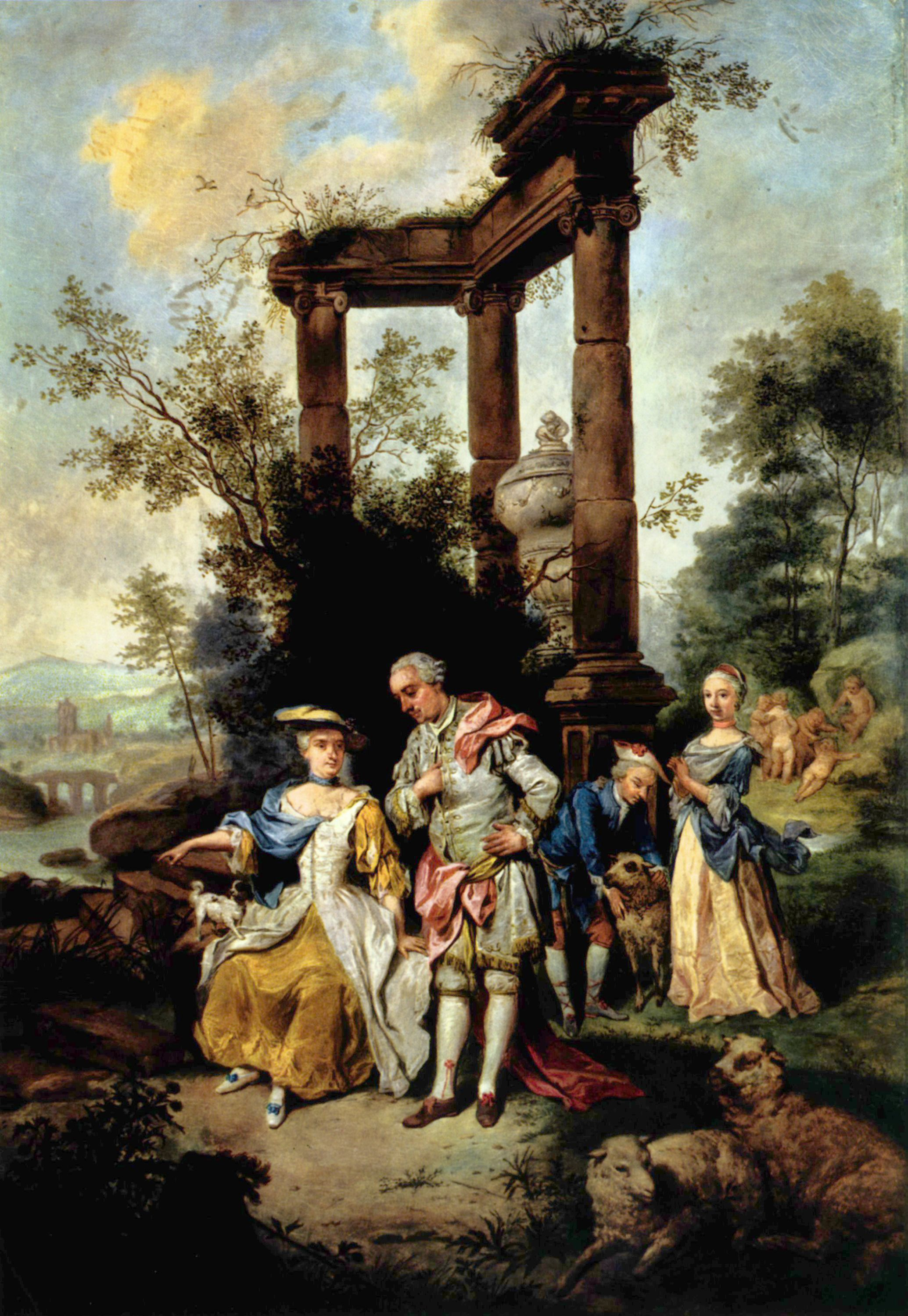 Goethe's family as shepherds. From left to right: Catharina Elisabeth Goethe, Johann Caspar Goethe, Johann Wolfgang Goethe, Cornelia Goethe